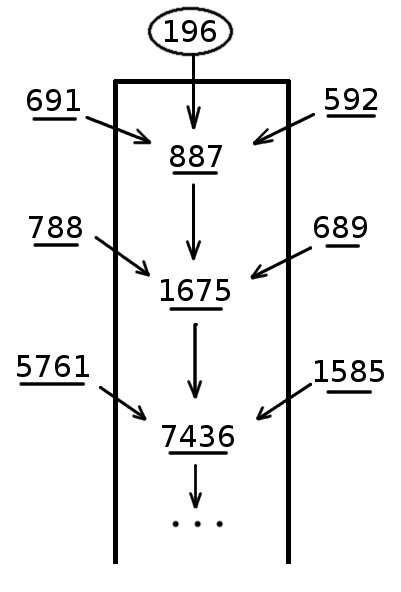 This diagram describes the terminology of Lychrel numbers. It represents the thread created by the 196 seed through the reverse and add process of Lychrel numbers. The underlined numbers are kin numbers of 196.